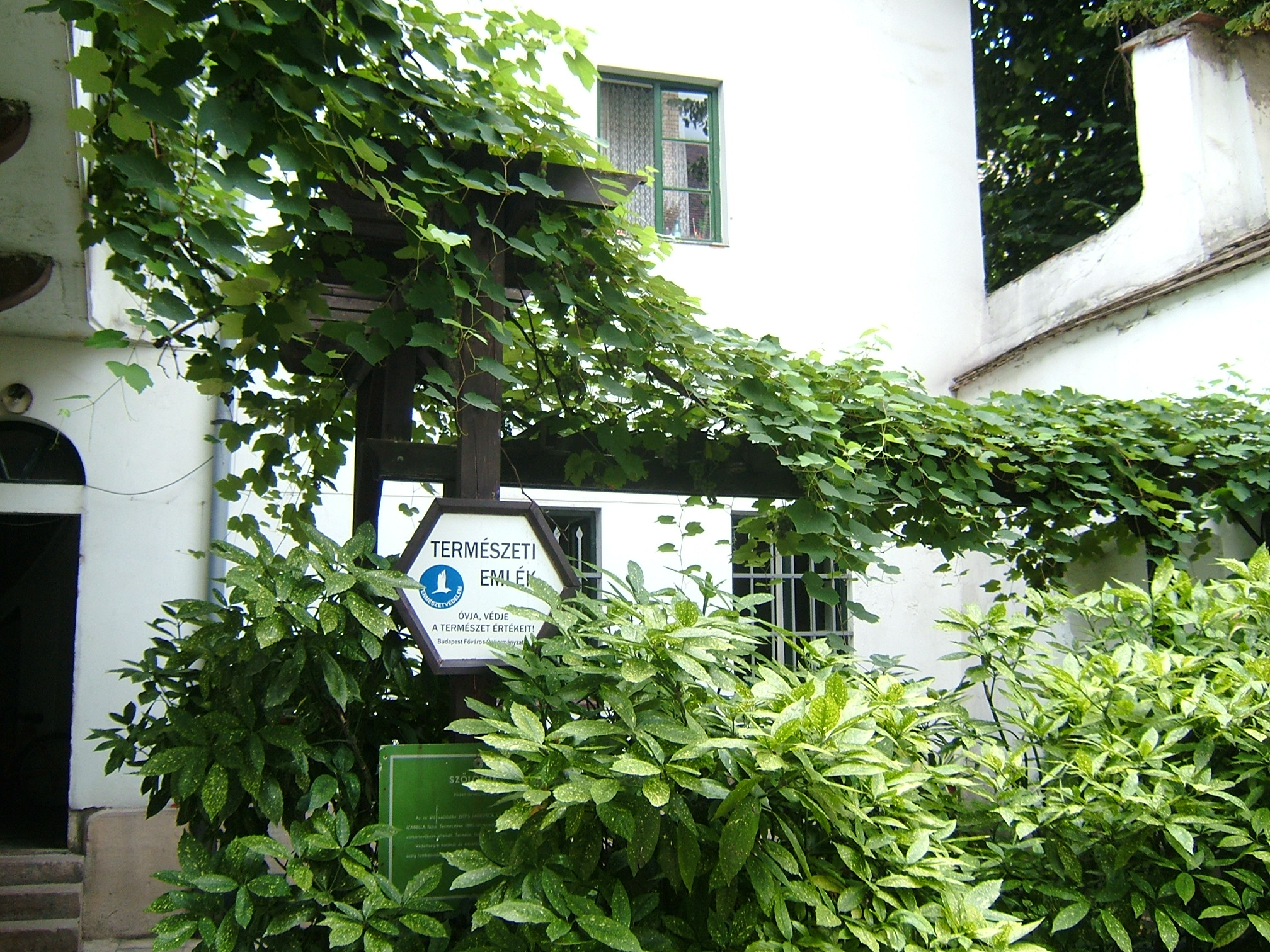 The famous grapevine at the Bécsi kapu tér, Budapest, Hungary. It is protected.